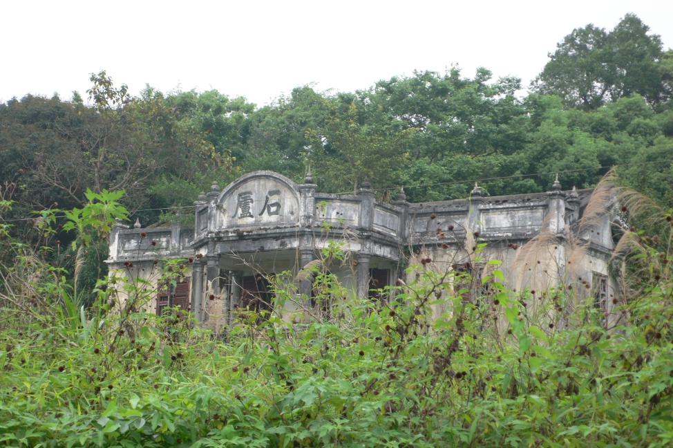 Shek Lo, the Old House of Tsui Yan Sau Peter, the founder of Wah Yan College, Hong Kong. This mansion is located in Lung Yeuk Tau Heritage Trail, Fanling, Hong Kong